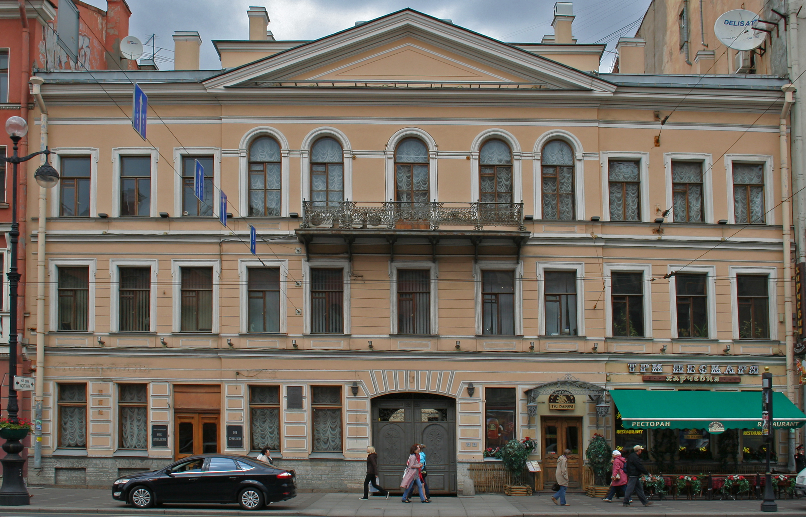 The Nevsky Prospekt in Saint Petersburg. House number 70.